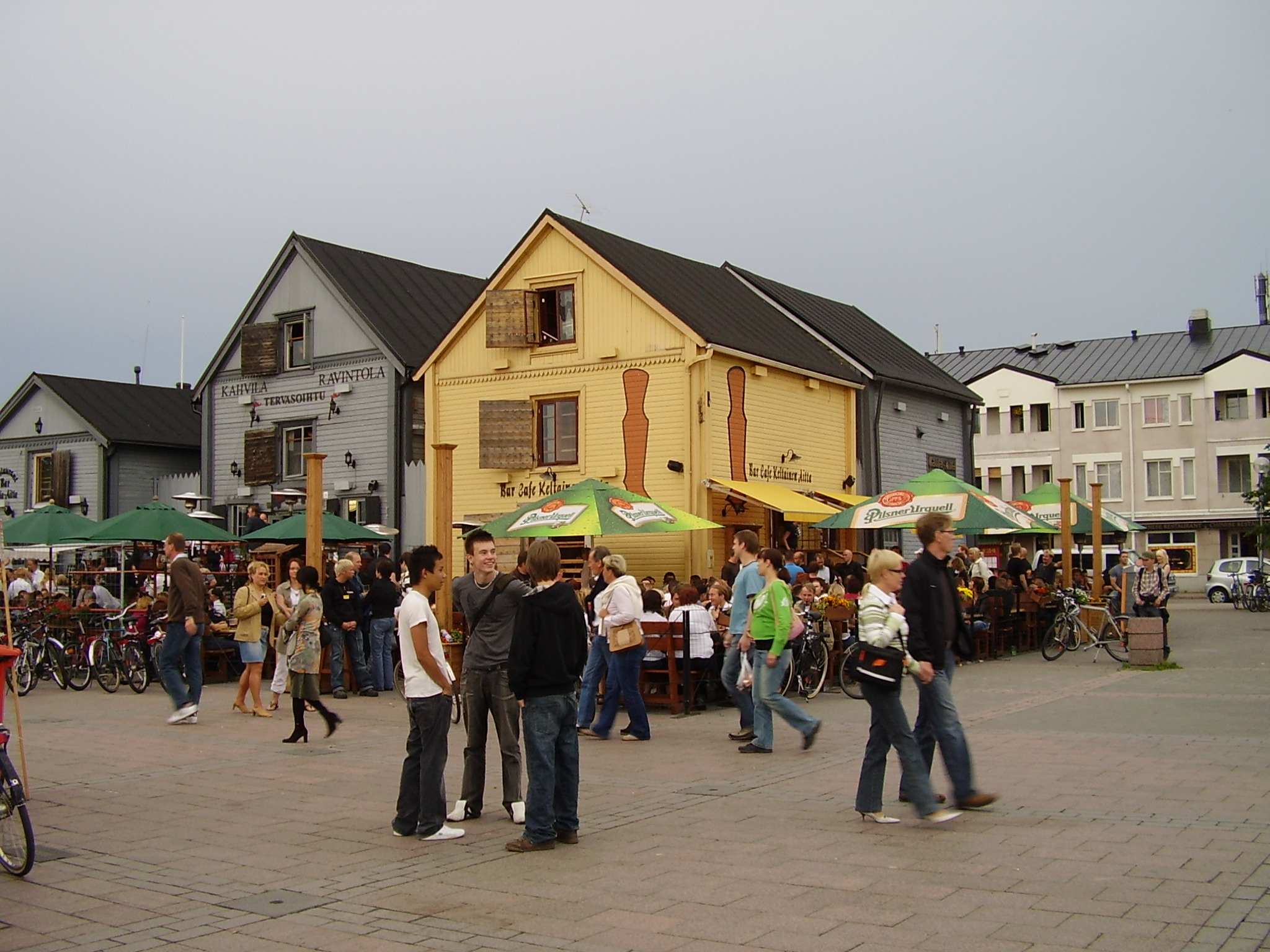 Historical centre of Oulu, Finland with summer atmosphere.